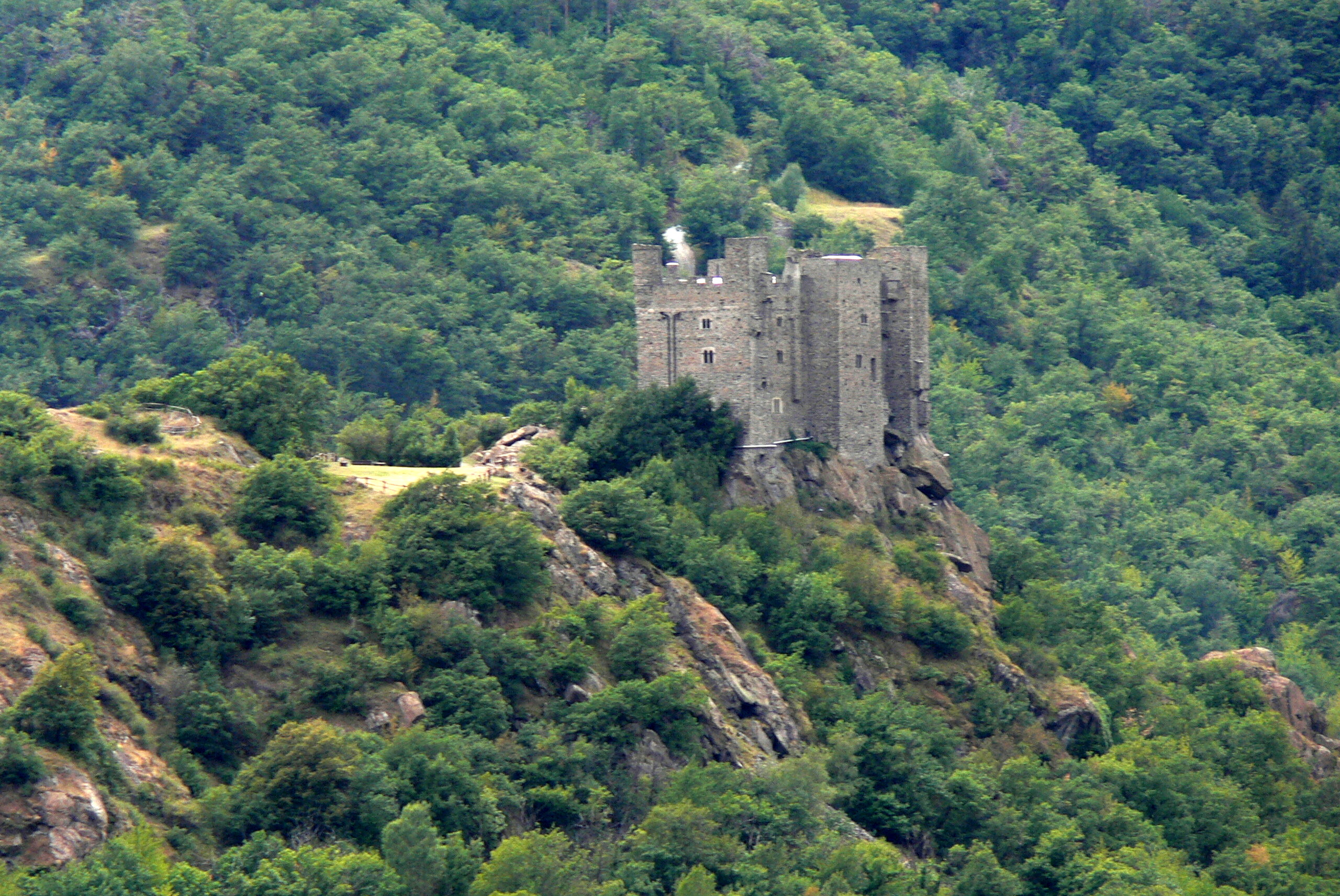 The castle of Ussel - nord-est facades. In Châtillon, Aosta Valley, Italy.